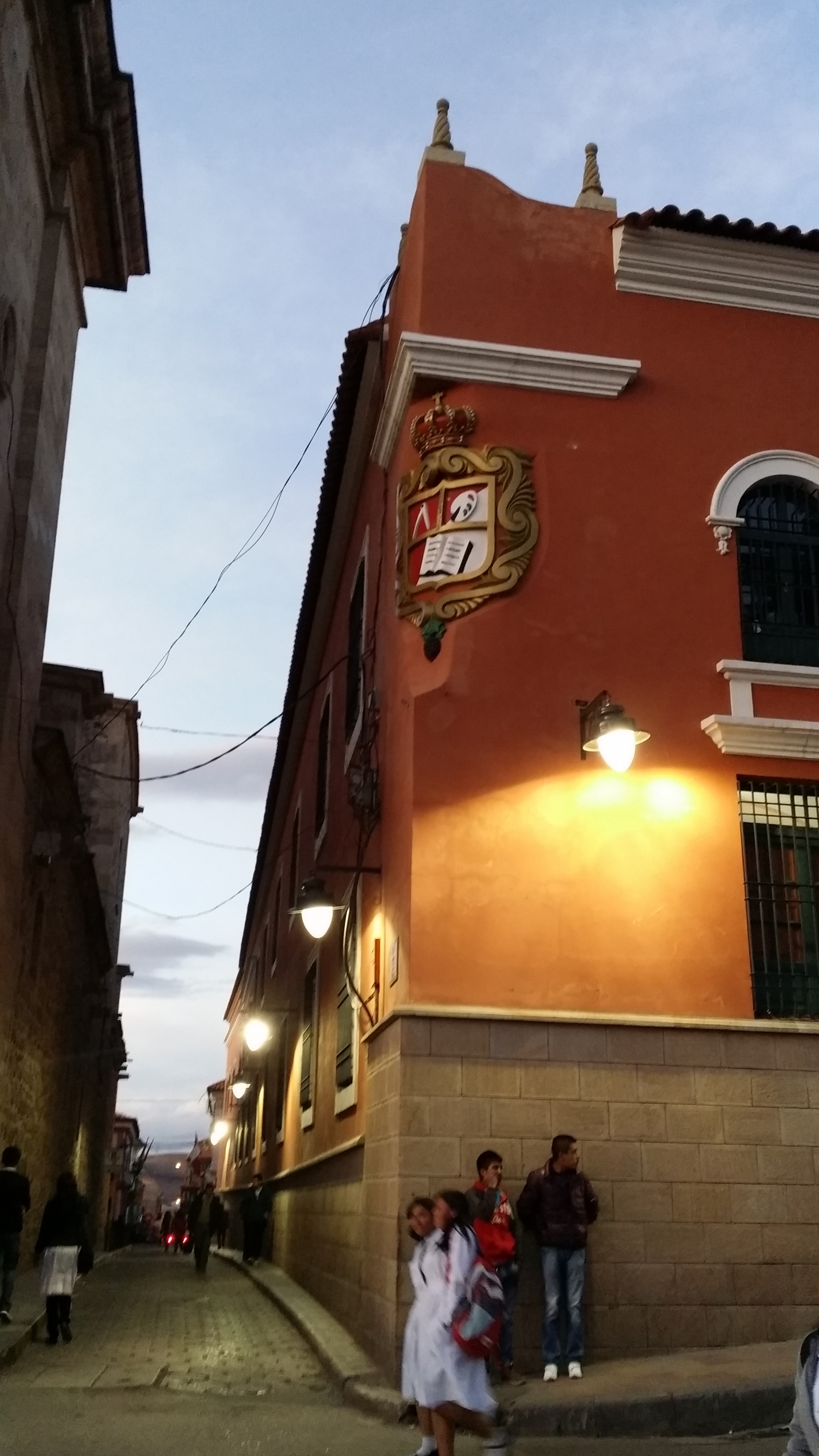 Building of Colegio Nacional Pichincha with its coat of arms, Potosí